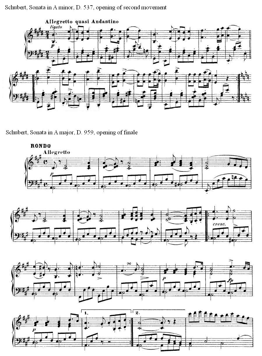 Comparison of D537, 2nd movt. with D959, 4th movt.